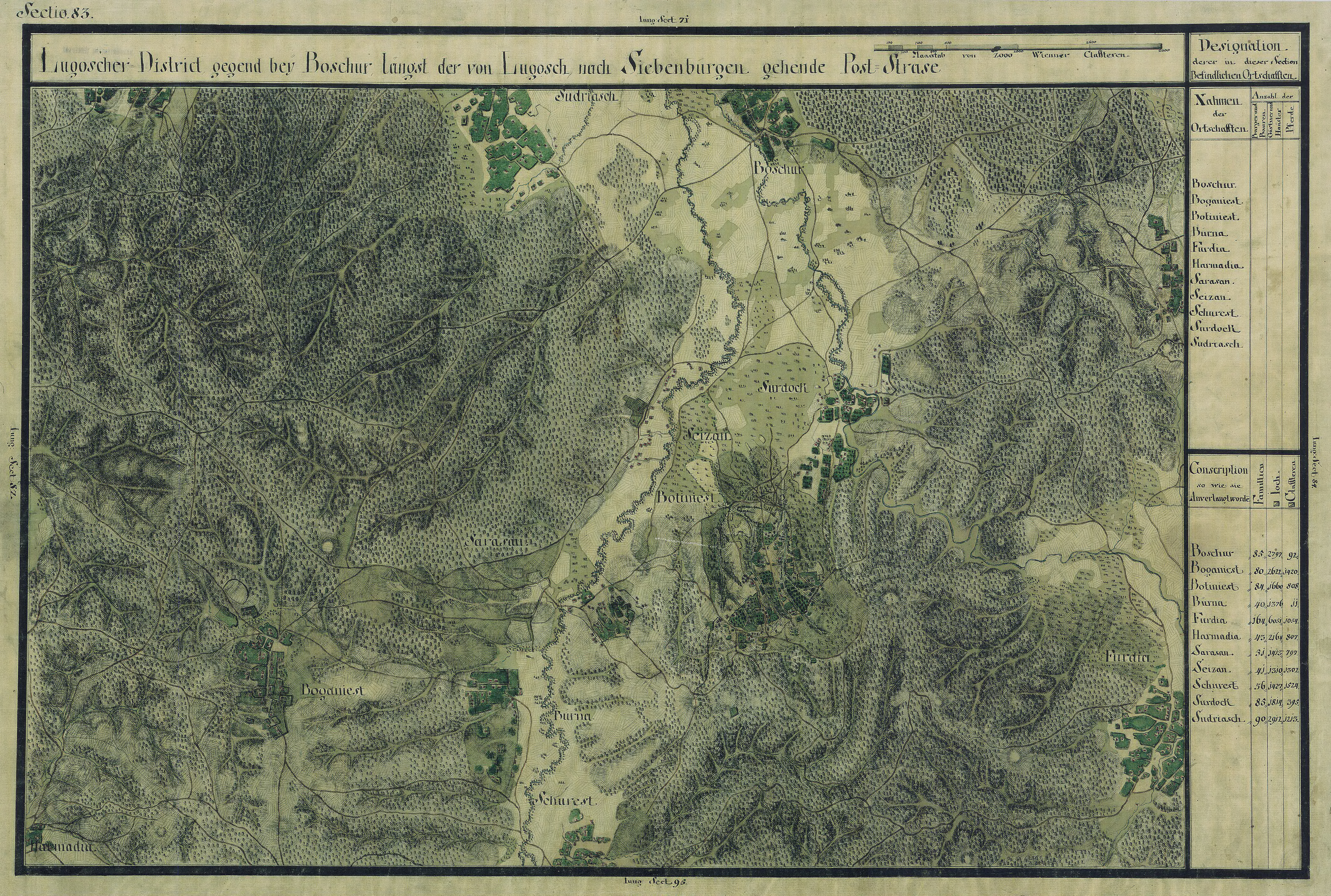 The Banat region in the cadastral maps: Josephinische Landesaufnahme, 1769-72. Josephinische Landaufnahme pg083